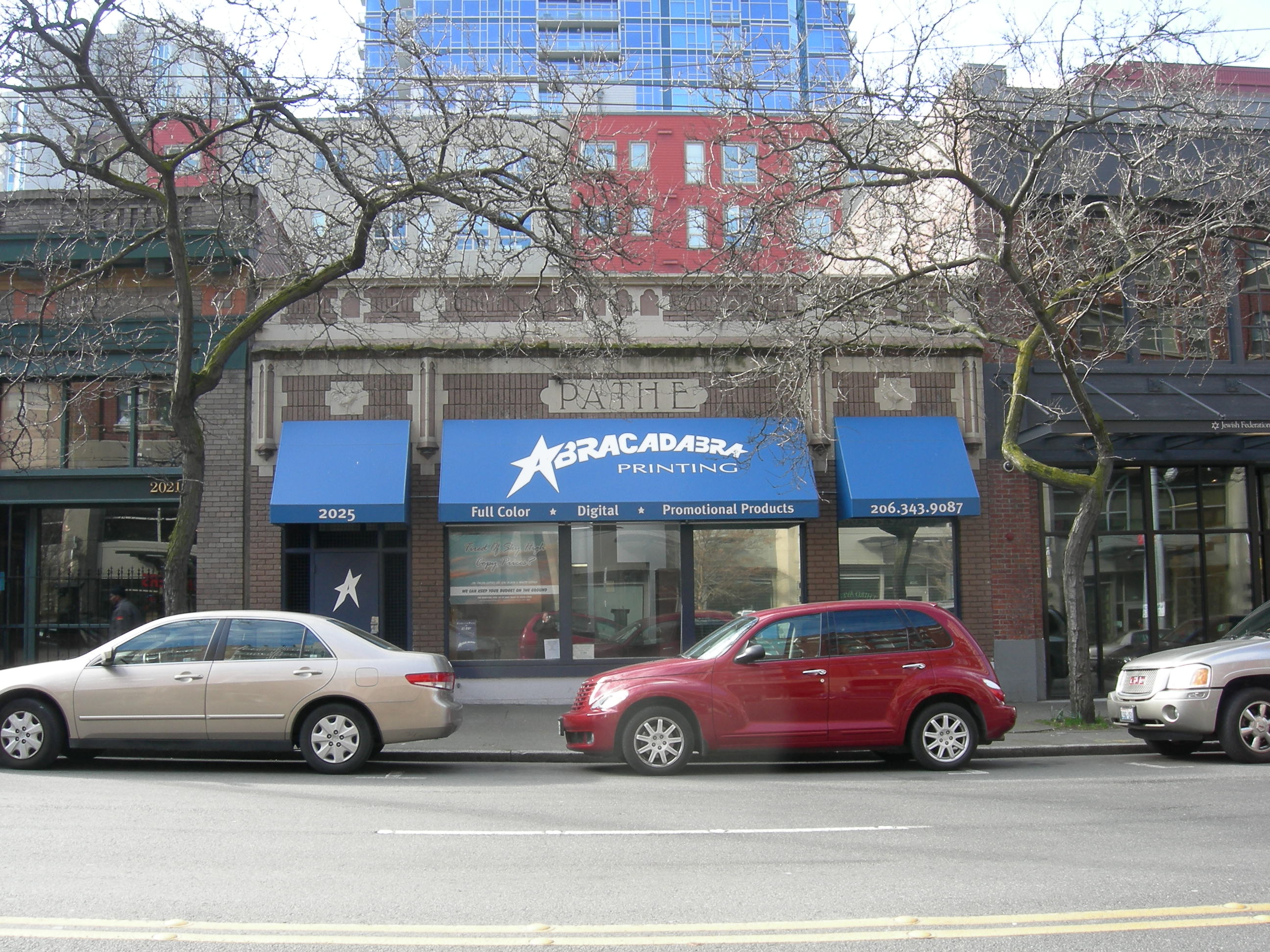 The Pathé Building, 2025 3rd Ave, Seattle, Washington, roughly on the border between Downtown and Belltown, is the most prominent remnant of Seattle's first (1920s) "film row". Originally the Pathé Film Exchange, it now houses a print shop. By the 1930s, Seattle's "film row" had moved a few blocks northwest to 2nd Avenue in Belltown; film exchange centers gradually became obsolete in the second half of the 20th century. For more about this building, see Summary for 2025 3rd AVE / Parcel ID 1977201105, Seattle Department of Neighborhoods.